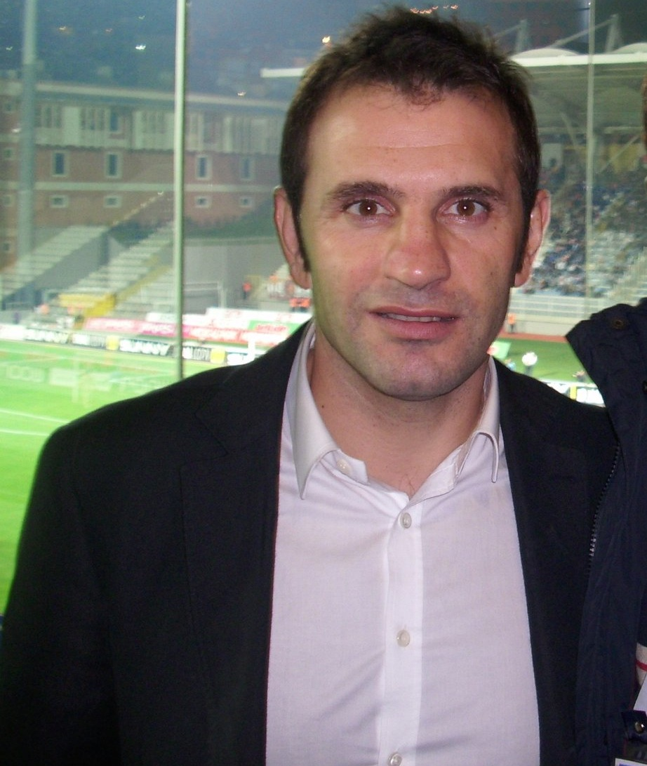 Okan Buruk Kasımpaşa stadında